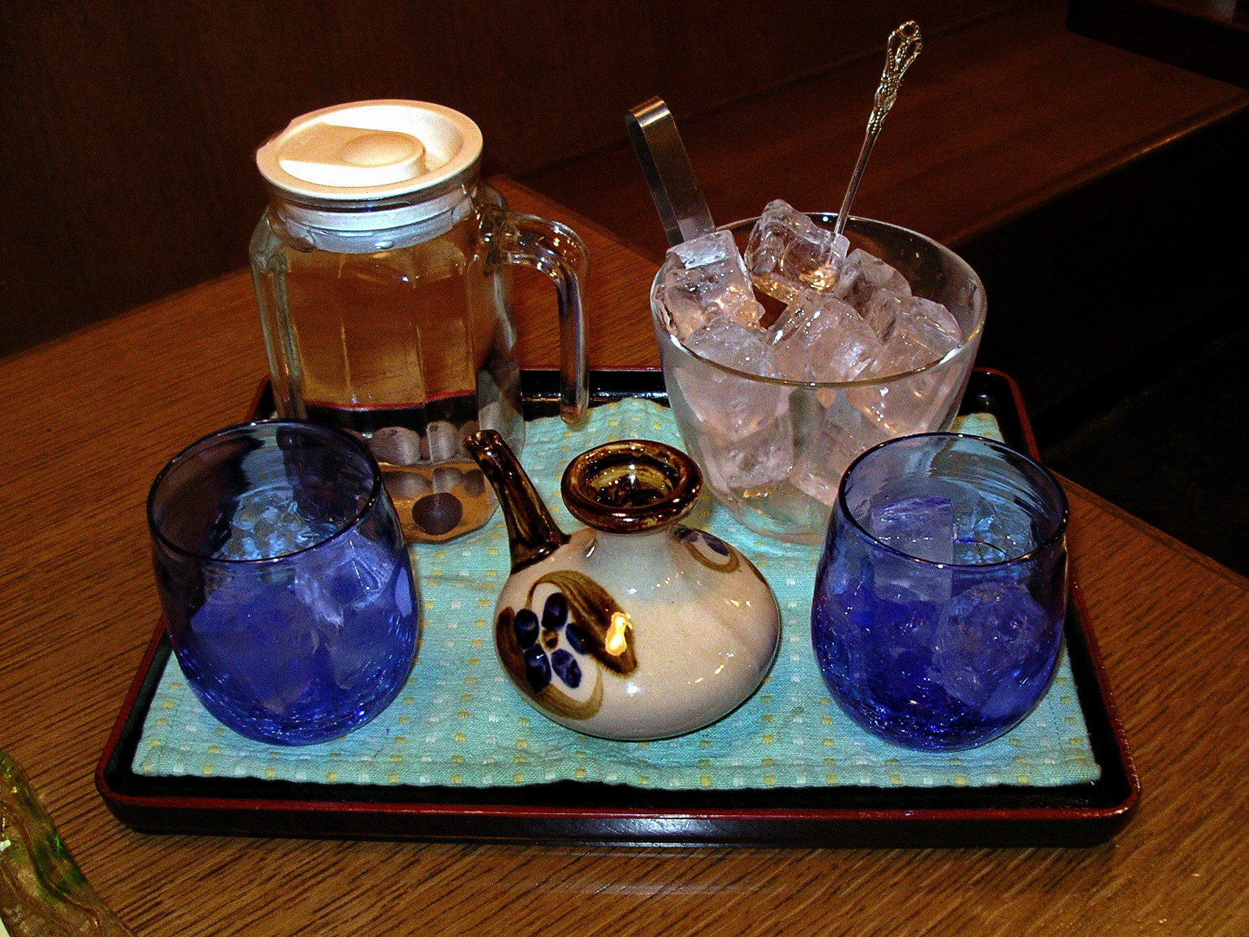 AwamoriMore: Blue Lotus泡盛